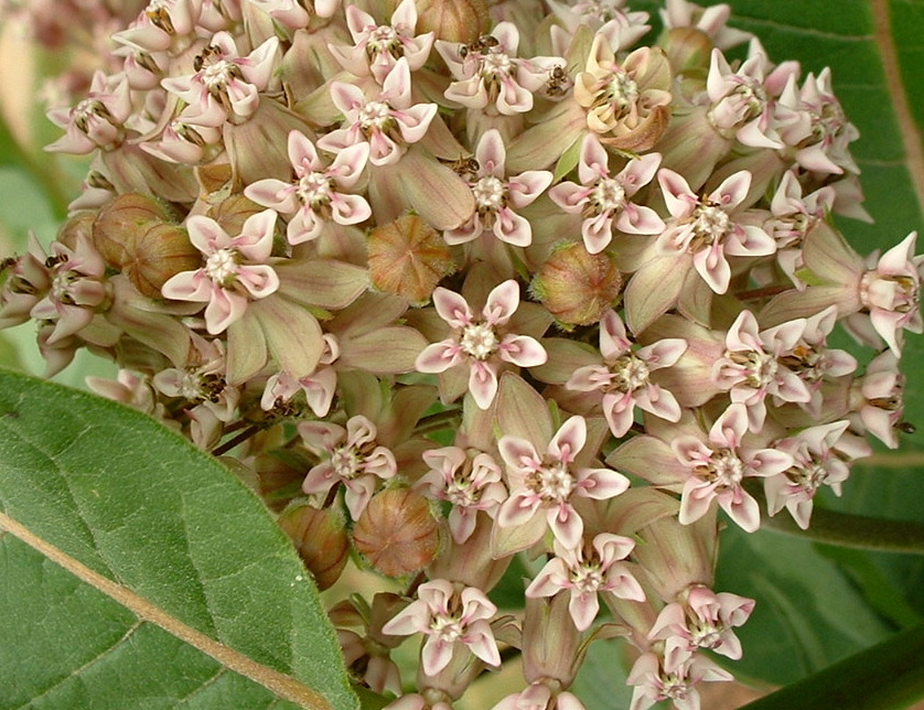 common milkweed